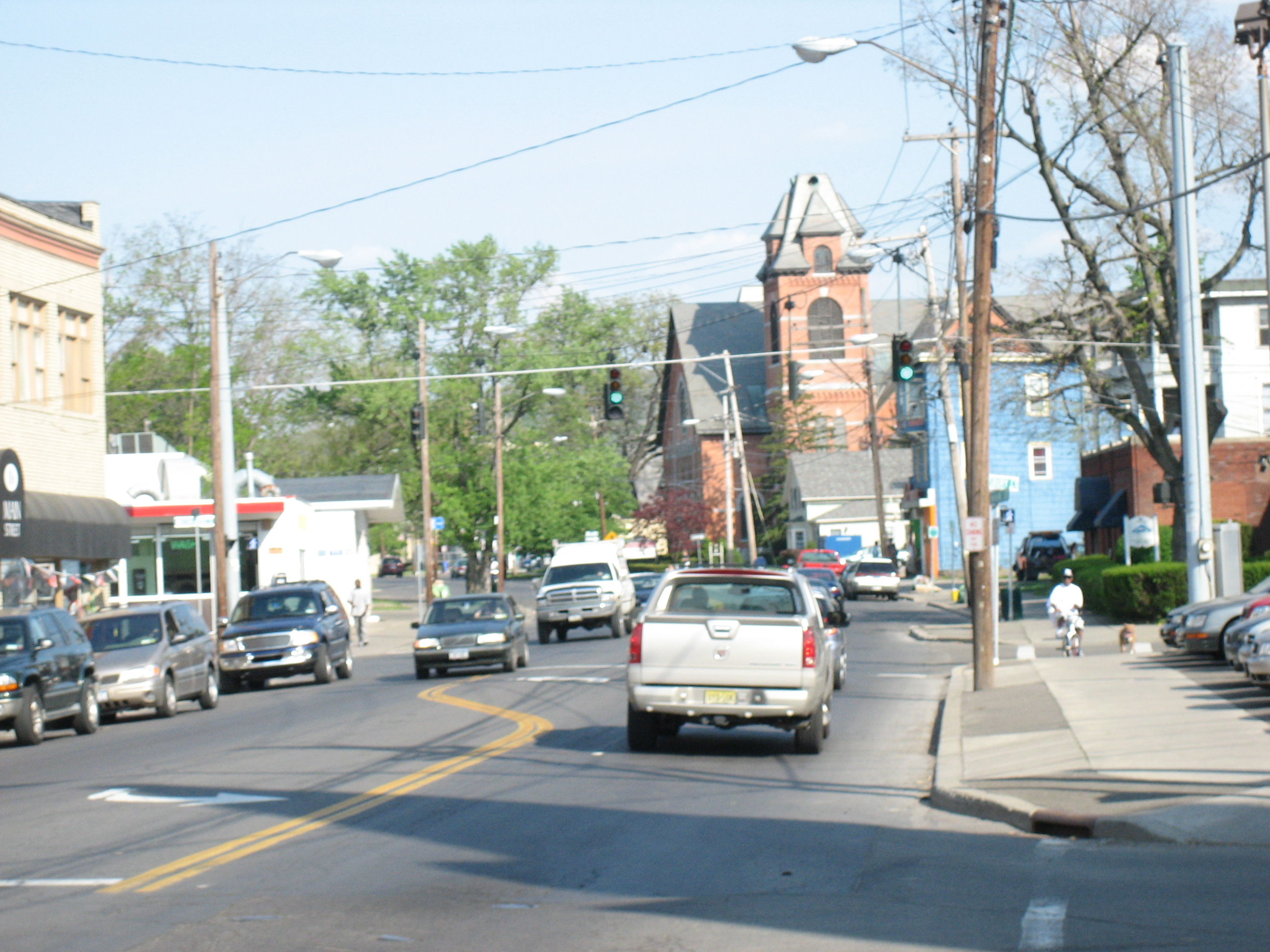 Main Street in Binghamton, New York. Looking east from the intersection of Chestnut Street on the Westside.